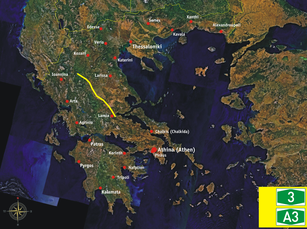 Course or track of Greek Motorway (avtokinetodromos) A3.